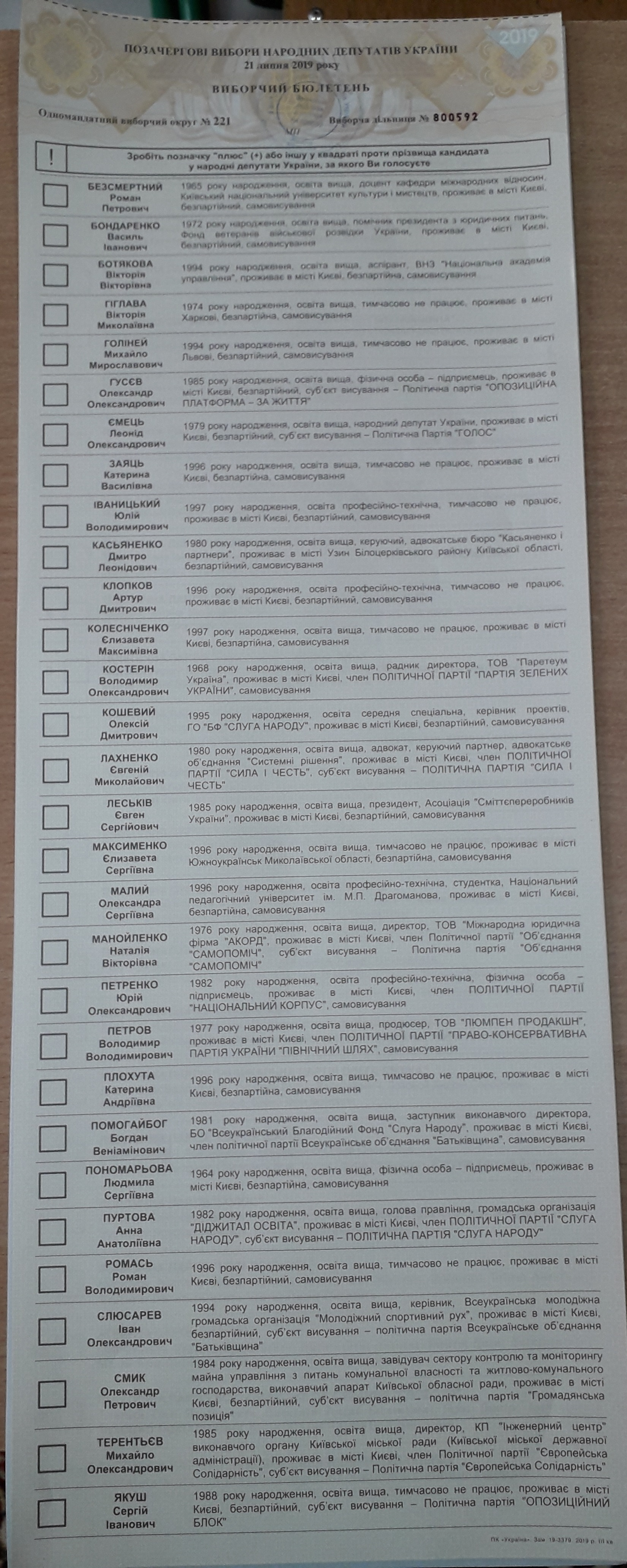 Voting ballot of the Ukrainian Parliamentary Election on July 21, 2019 for voting for MP from electoral district 221, polling station #800592, district 221 (Kyiv, Pechersk district).